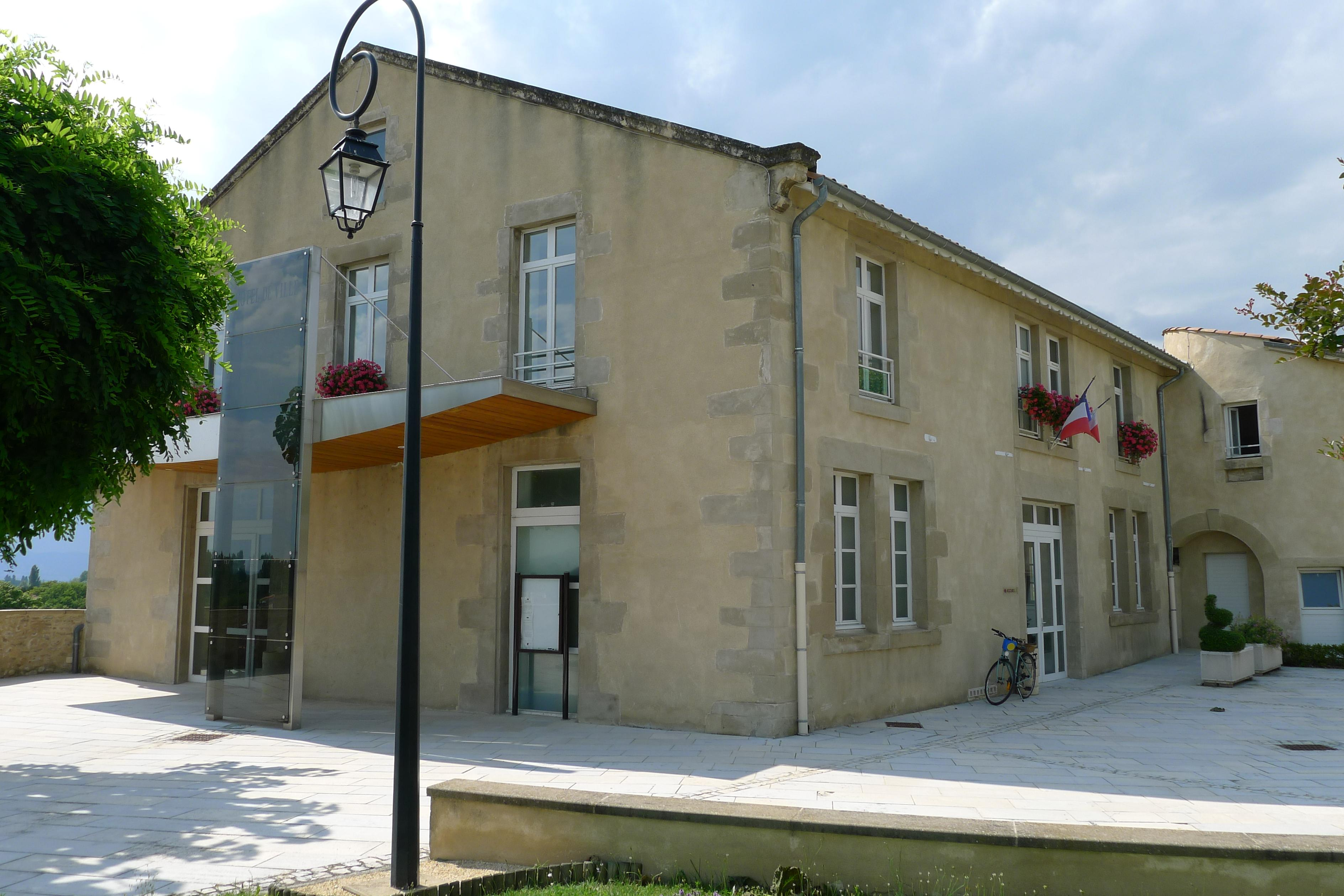 Town Hall of Alixan - Drôme - France